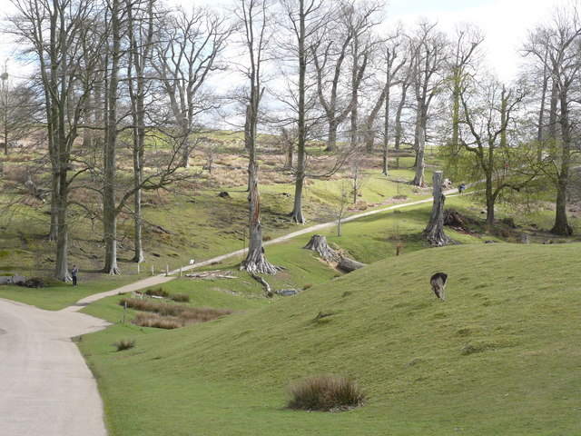 Parkland, Knole Park, Sevenoaks Photographed from just inside the entrance to the park. The path to the right leads to Knole House.